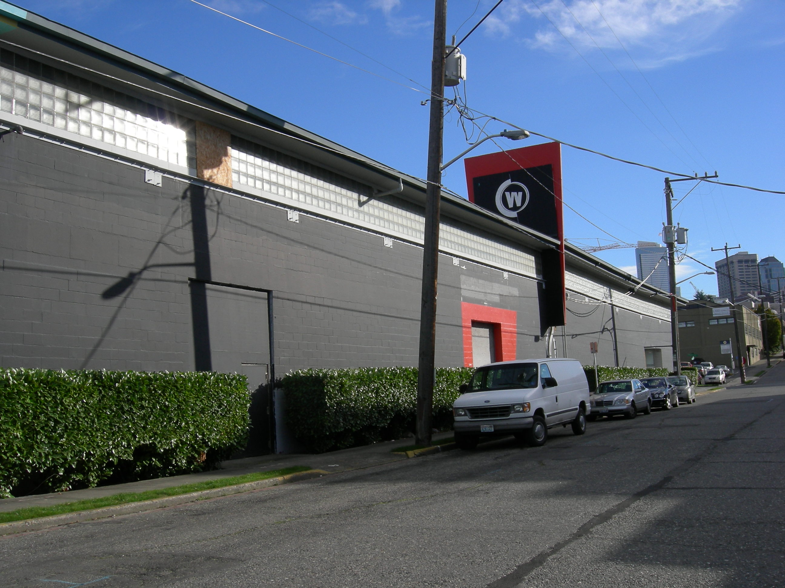 The second and last site of the now-closed arts center Consolidated Works, 500 Boren Avenue North, corner of Boren and Republican, Seattle, Washington, USA. Prior to that, it had been a warehouse. As of 2017, this is the site of the Amazon Fiona Building.